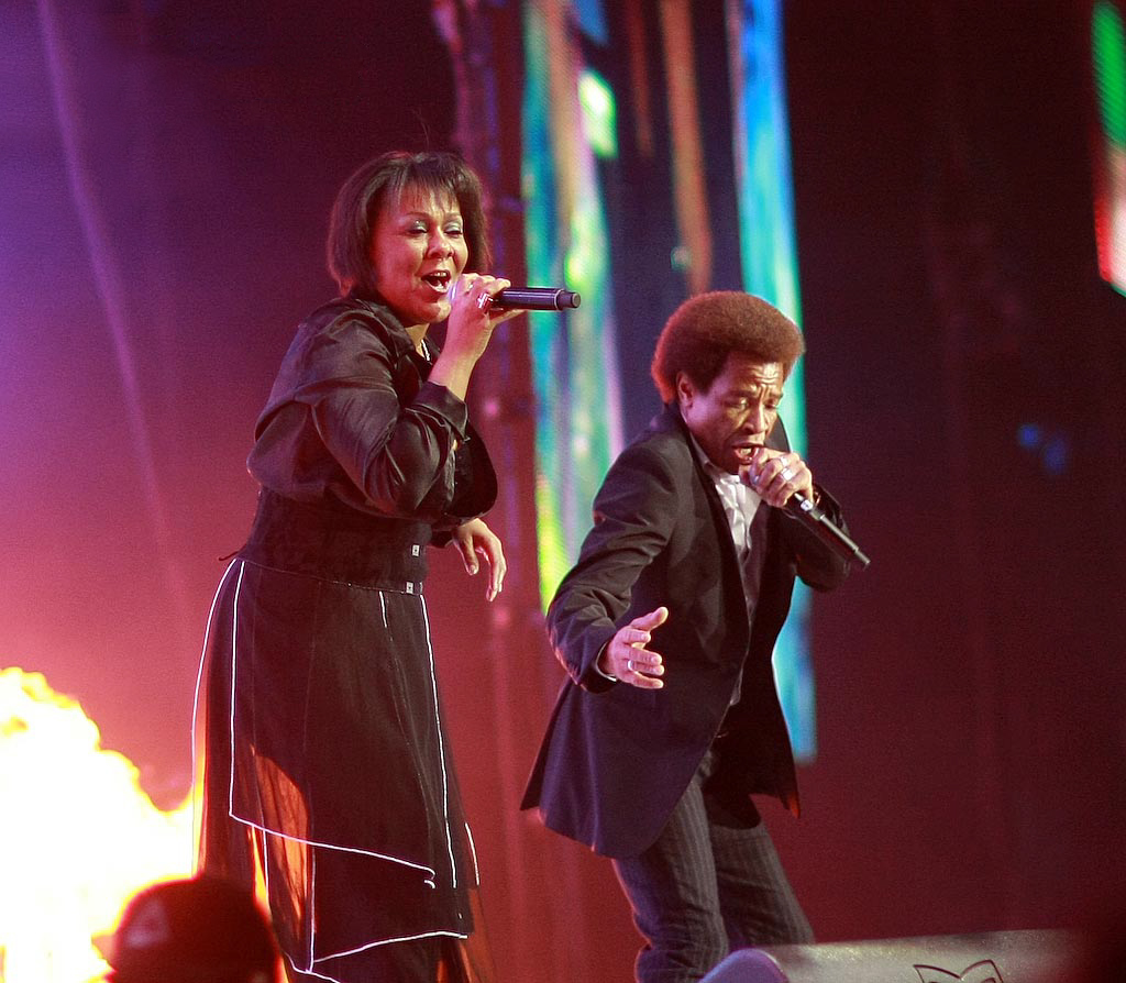 Ottawan performing in Moscow